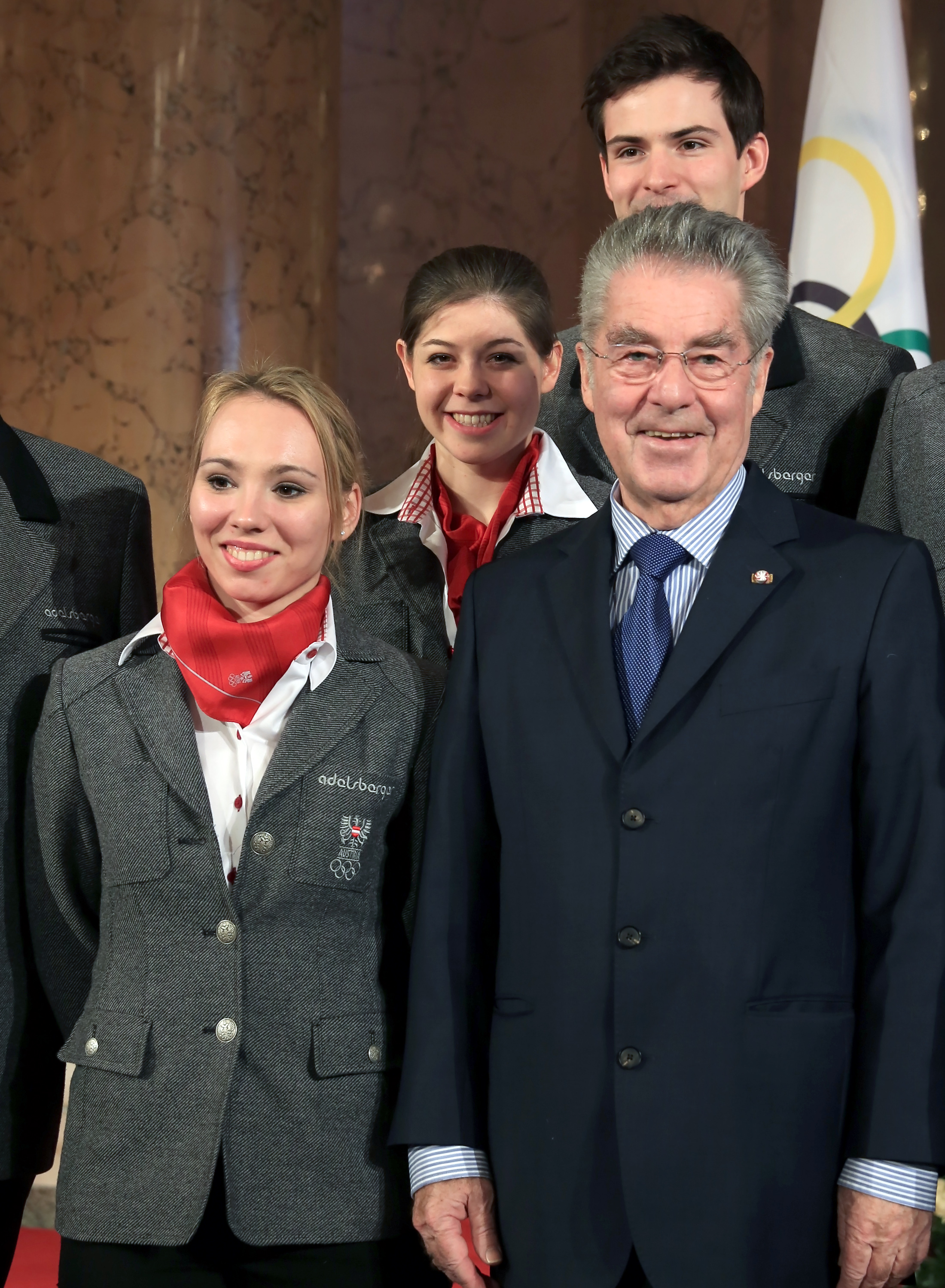 Athletes of the Austrian team for the 2014 Winter Olympics - Figure Skating: Kerstin Frank, Severin Kiefer and Miriam Ziegler with Federal President Heinz Fischer, Federal Minister Gerald Klug and ÖOC officials Karl Stoss and Peter Mennel; group picture taken at Hofburg Palace in Vienna, Austria.